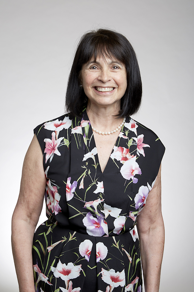 Susan Randi Wessler (born 1953, New York City) is an American plant molecular biologist and geneticist. She is Distinguished Professor of Genetics at the University of California, Riverside (UCR) Attribution: The Royal Society